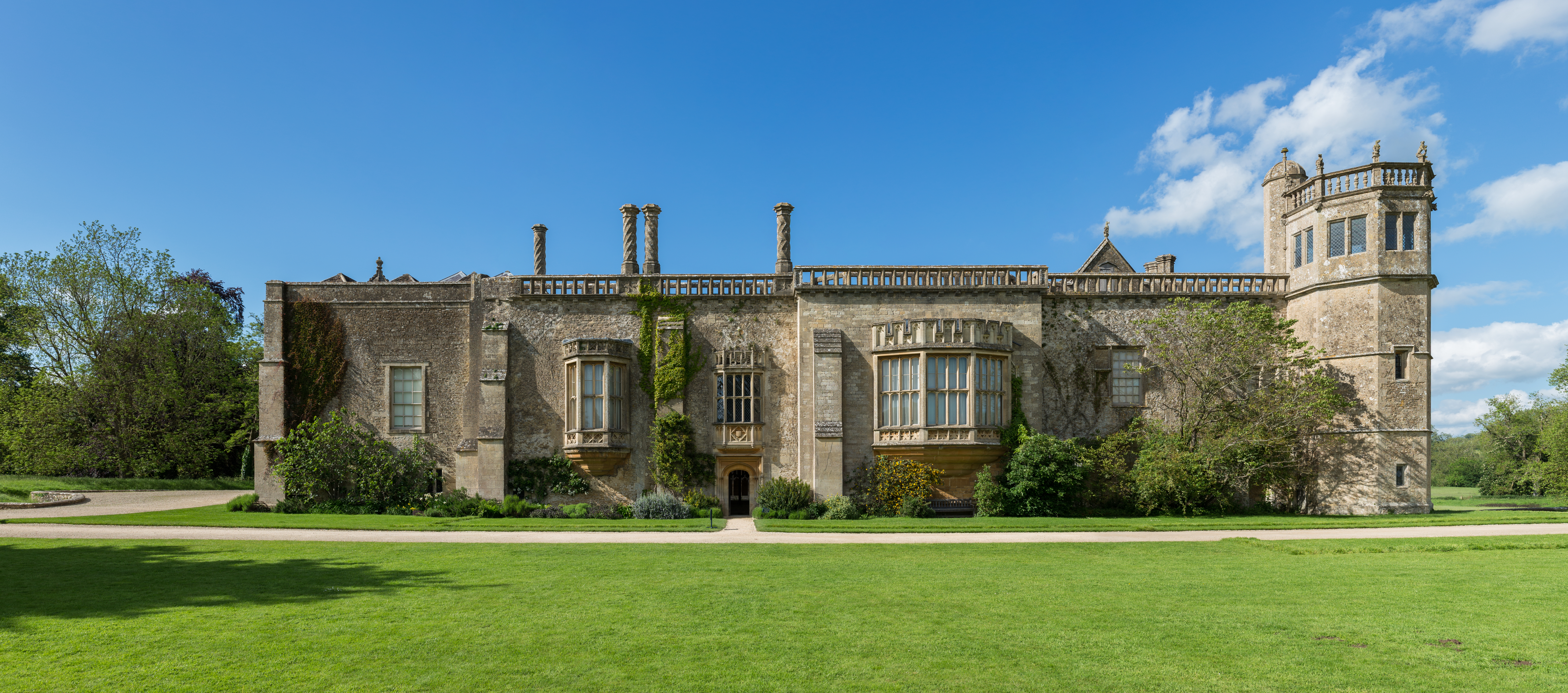 A panoramic view of Lacock Abbey as viewed from the south